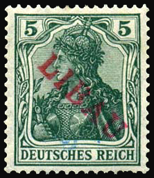 Postage stamp for 8th Army of German empire in Courland, Liepaja (Libau), 5 pfennigs, 2 january 1919